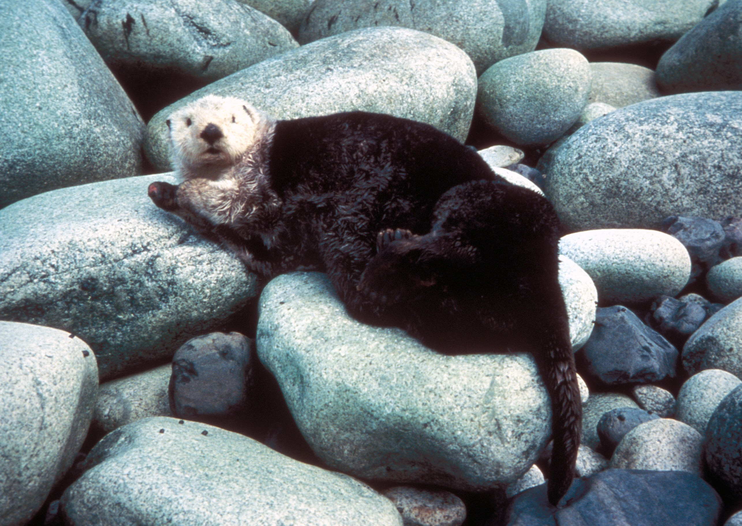 Sea Otter Enhydra lutris in Yukon Delta National Wildlife Refuge, Alaska